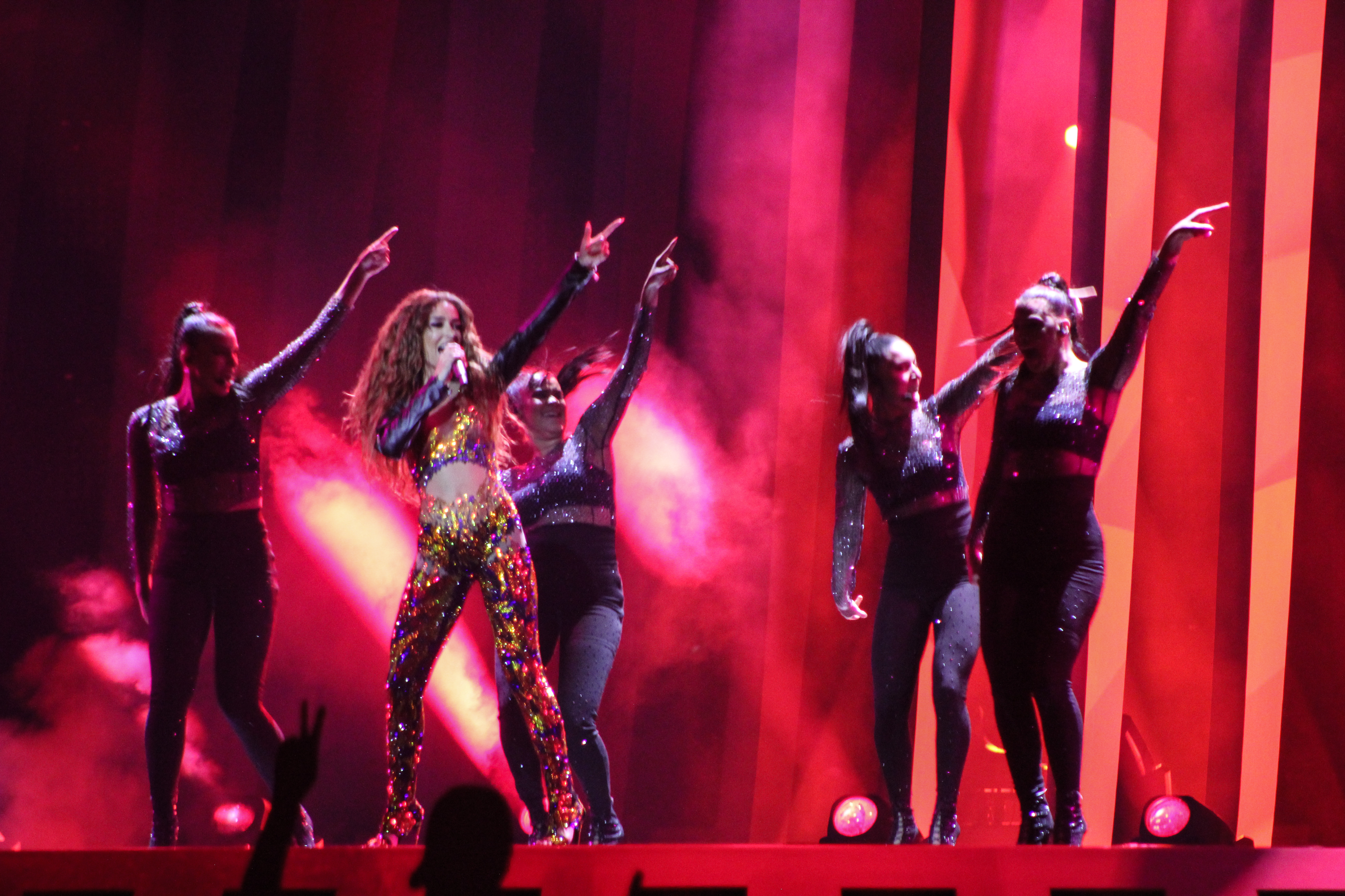 Eleni Foureira representing Cyprus with the song "Fuego" during a rehearsal before the first semi final of the Eurovision Song Contest 2018 in Lisbon.